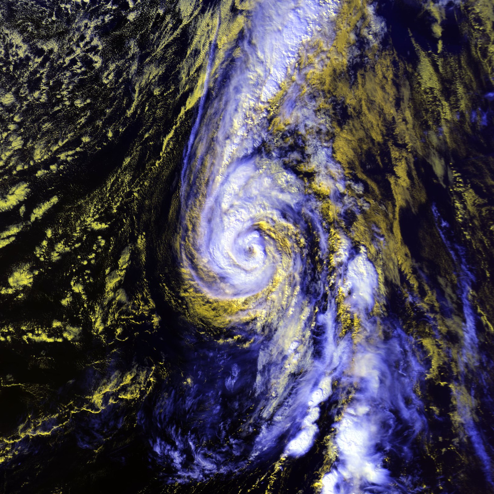 The Advanced Very High Resolution Radiometer (AVHRR) instrument on the NOAA-14 satellite captured this image of intensifying Hurricane Tanya over the northern Atlantic Ocean. At the time, Tanya had 1-minute sustained winds of 85 mph (140 km/h) and a minimum central pressure of 977 millibars (28.85 inHg).